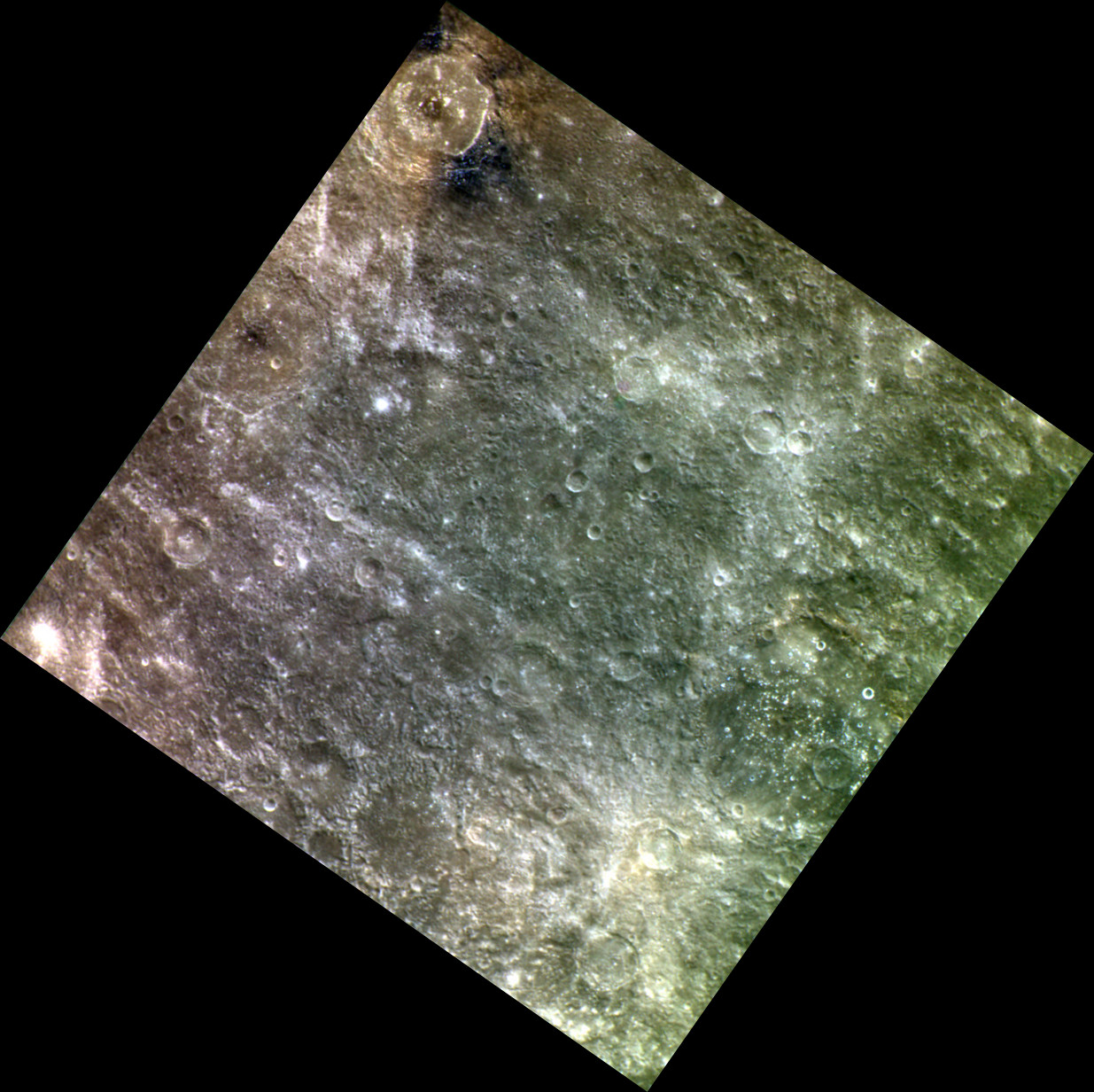 Approximate color image of Mercury from Hitomaro crater at top to Darío crater in lower right. Approximate color representation combining three images acquired by MESSENGER Wide Angle Camera (EW0253419217I, EW1051081114F, EW1051081118G) with I (996.2 nm), G (748.7 nm), and F (433.2 nm) filters. Combined in GIMP software as RGB (Red-Green-Blue), and then rotated so that north is up. Statistics for I image: Emission Angle: 0.4 Incidence Angle: 28.4 Latitude: -23.5 Longitude: 346.2 Phase Angle: 28.1